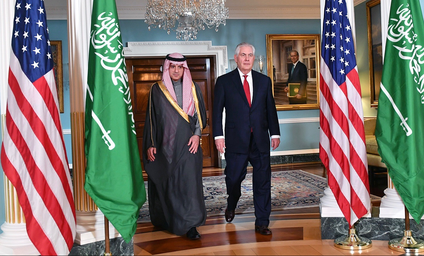 U.S. Secretary of State Rex Tillerson and Saudi Arabian Foreign Minister Adel al-Jubeir prepare to address reporters at the U.S. Department of State in Washington, D.C. on January 12, 2018. [State Department Photo/ Public Domain]